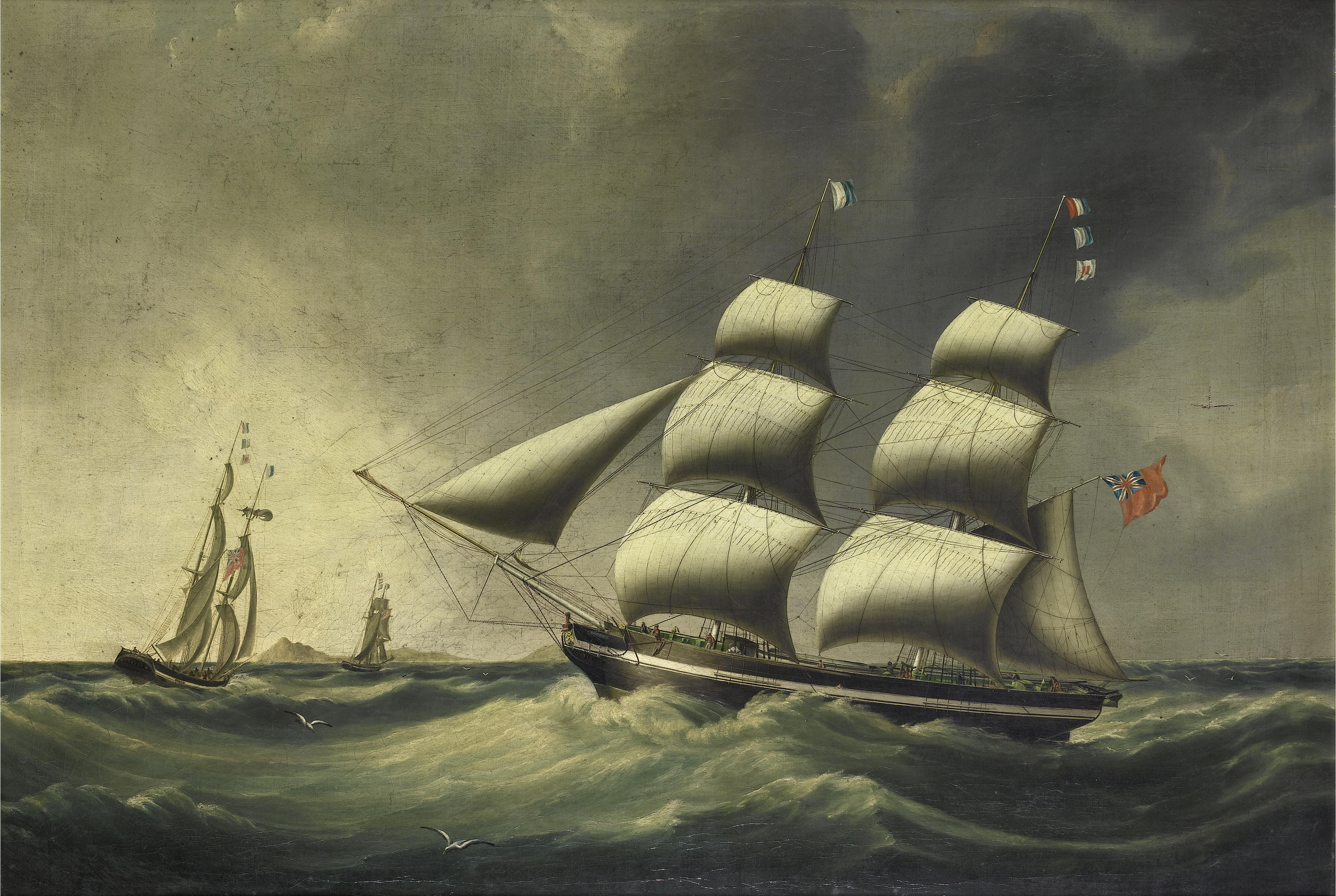 The Merchant brig Rimac in two positions off Cape Horn, with another of Brocklebank's brigs in view. Rimac, identified from her masthead Watson`s Code flags for 268 (= Rimac ), was one of a class of twenty-one standard wooden brigs built for Brocklebanks' of Liverpool between 1822 and 1845. Launched from Brocklebank`s own yard at Whitehaven in 1834, she was registered at 215 tons and measured 90 feet in length with a 23 foot beam. Ordered specifically for the company`s Peru route, she spent much of her life sailing to the many ports on the western coast of South America and rounded the Horn´ no less than fifty-six times, a remarkable achievement for any sailing vessel, particularly a tiny brig. After a long and trouble-free career, she was inbound for Dundee with a cargo of guano on 28th February 1862 when she was driven aground near Kilrush, in the south-west of Ireland. Although successfully refloated, she had suffered some hull damage and, perhaps for this reason, Brocklebanks' sold her to Nuttall & Co. of Liverpool in 1864. Ten years later, on 12th December 1874, by which date she was owned by W. Hayes of Blythe, she was wrecked near North Somercotes, south of Grimsby.